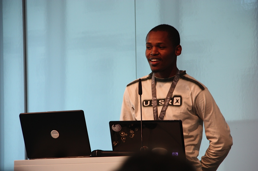 Abbas Mahmood presenting on Wikimedia: Developing World Working Group